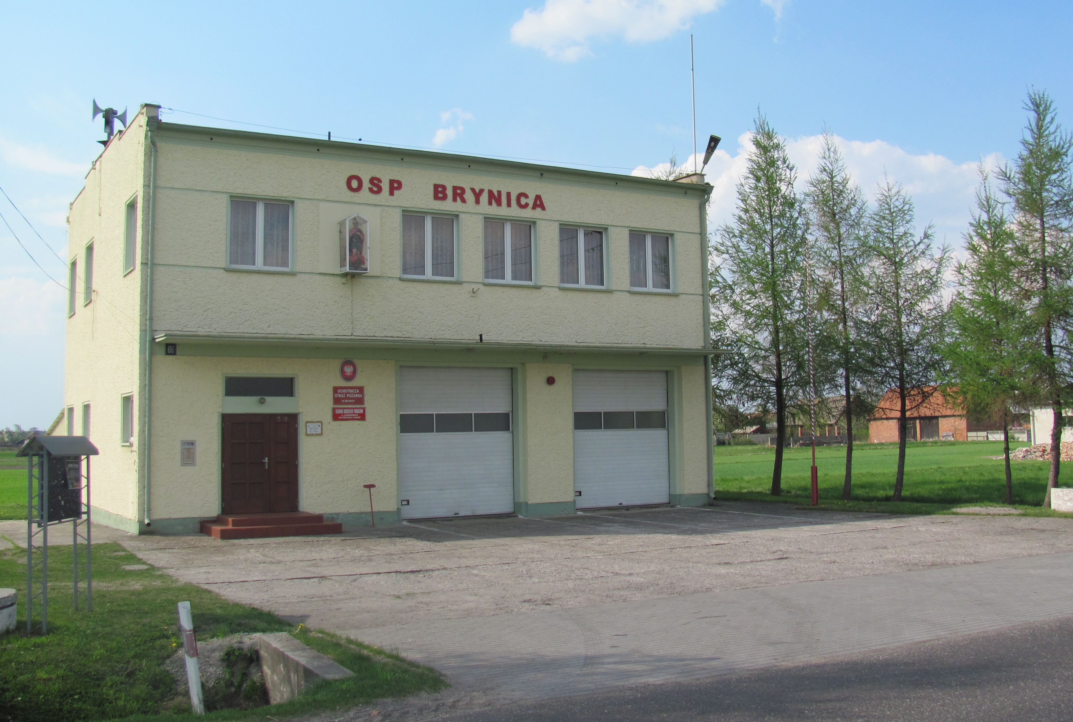 New OSP fire station in Brynica